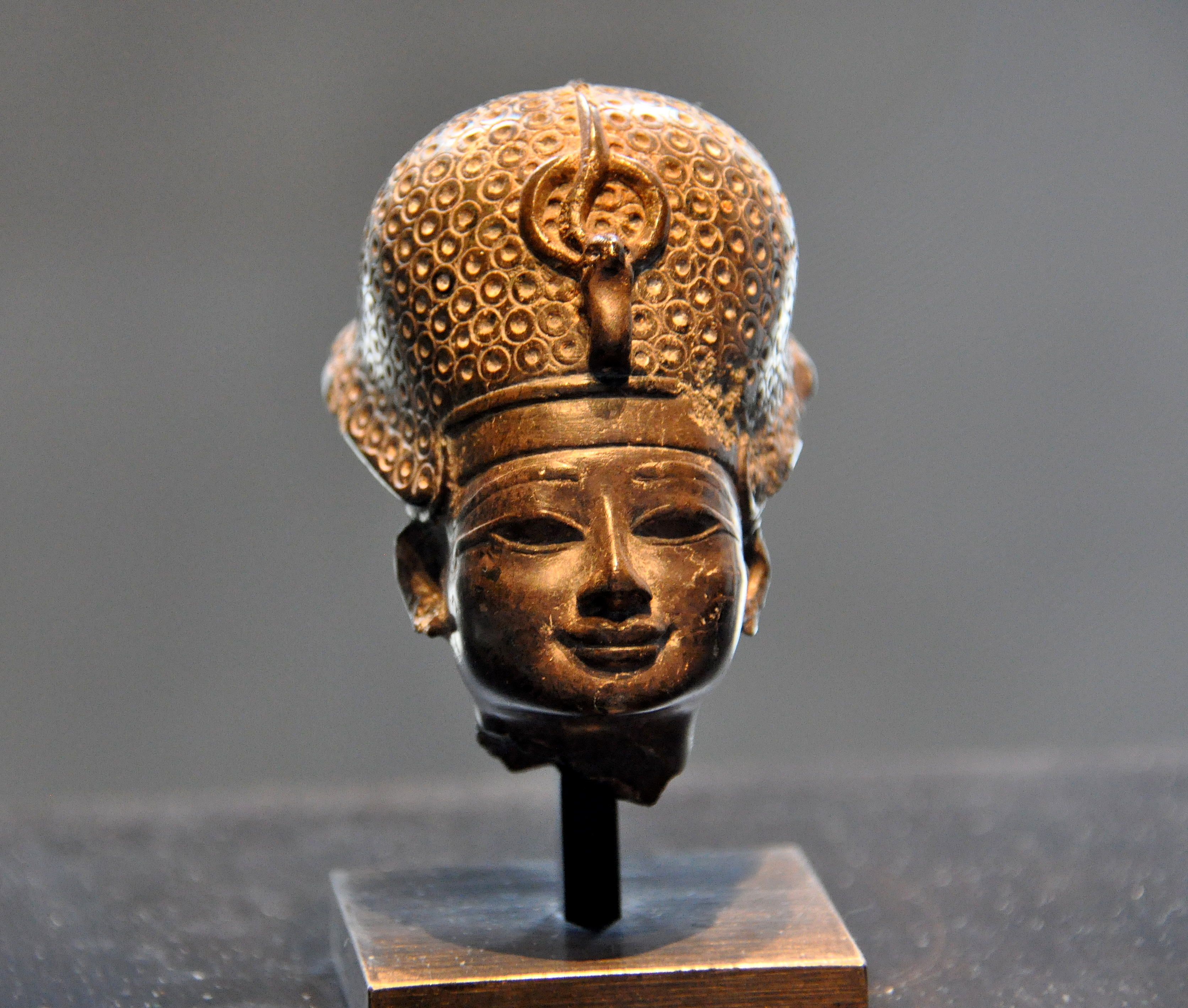 Head of the Egyptian pharaoh Thutmose IV wearing the blue crown. The head was part of a statue. Steatite. New Kingdom, 18th Dynasty, early 19th BC. From Egypt. State Museum of Egyptian Art, Munich, Germany.